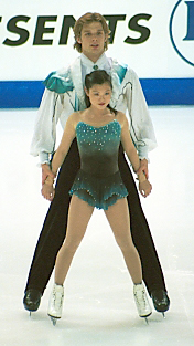 Kyoko Ina and John Zimmerman compete their long program at the 2001 Grand Prix Final in Kitchener, Ontario. Photo taken by me, Vesperholly 05:48, 17 July 2006 (UTC)